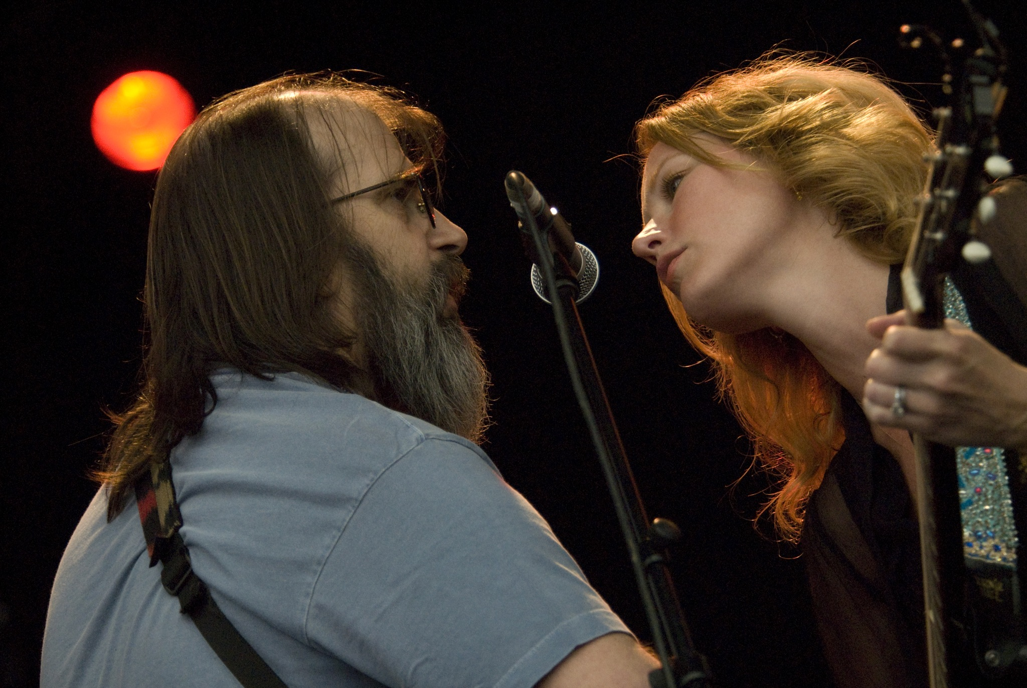 Cambridge Festivals 2001-2014